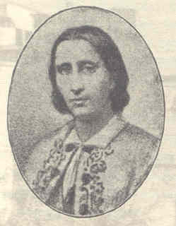 Kalliopi Papalexopoulou (1809-1899)